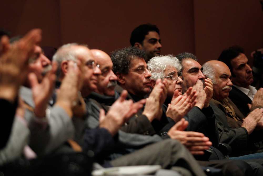 Commemoration Late Gurgen Movsessian (25 November 2014)